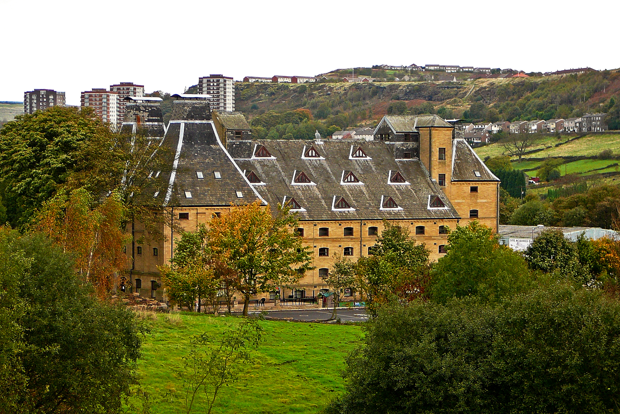 The former Fountain Head Brewery, Halifax, West Yorkshire